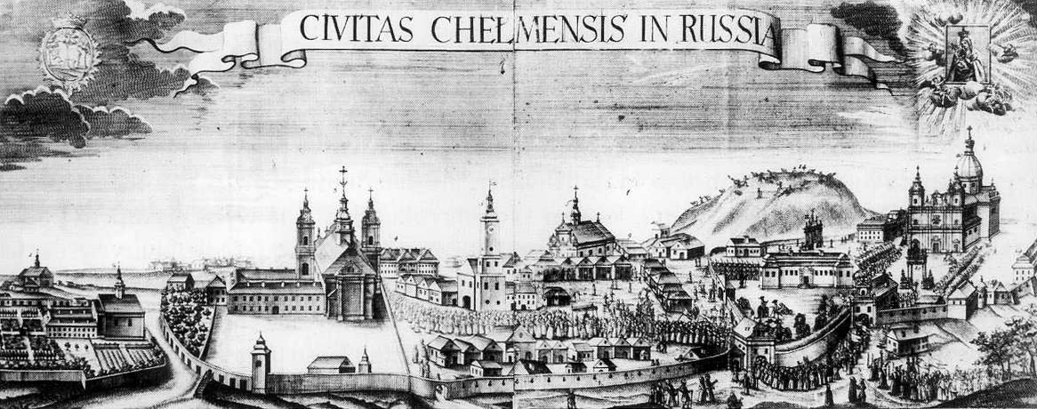 Civitas Chełmensis in Russia, Terra Chełmensis, Polish-Lithuanian Commonwealth (1765).